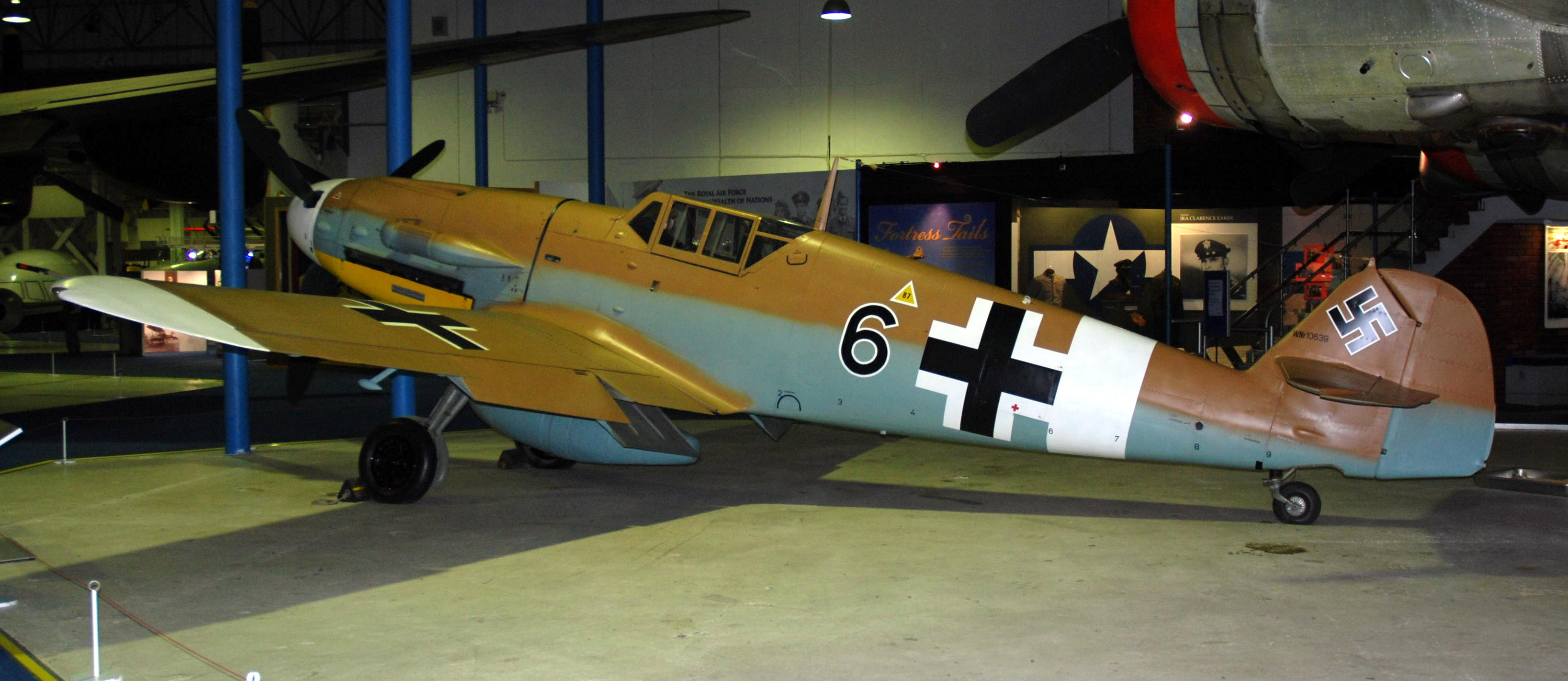 Photo ref; Nikon-D80-2013-DSC_1185 (Edited)